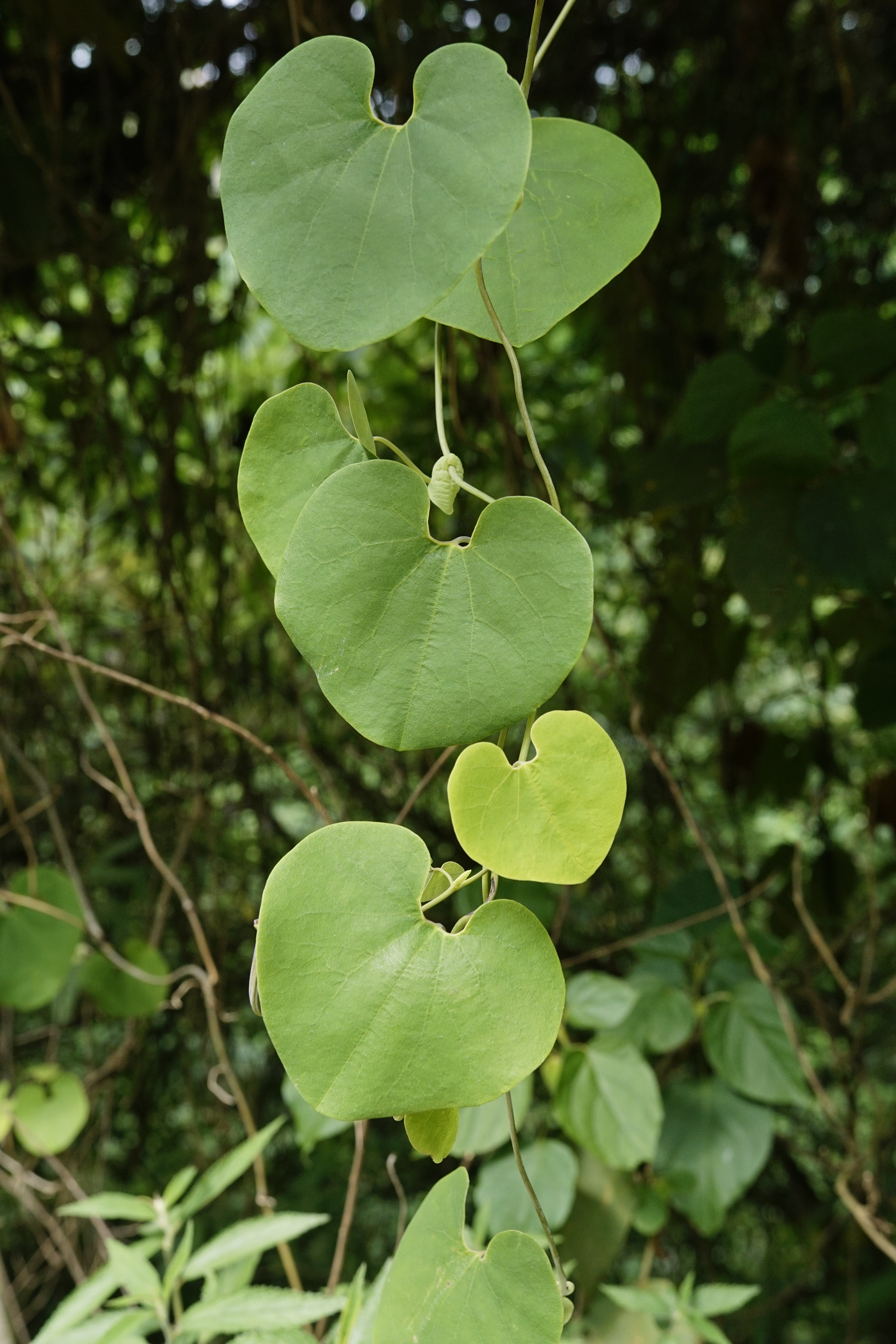 Gaping Dutchman's Pipe (Aristolochia ringens), Chembra Peak, Kerala,.